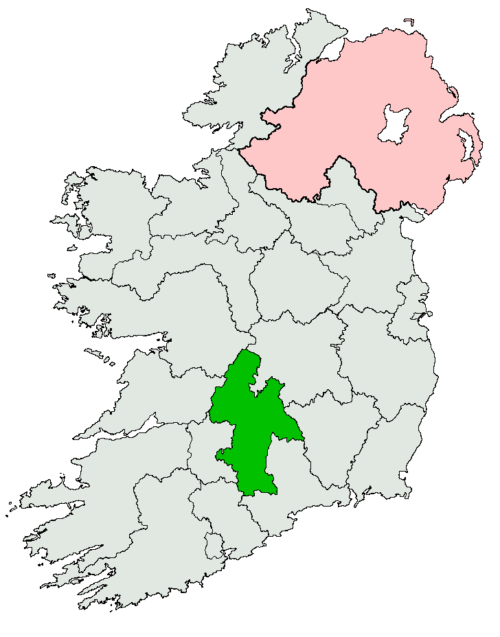 Map depicting the former Irish electoral constituency of Tipperary Mid, North and South, created under the Government of Ireland Act 1920 and abolished under the Electoral Act of 1923.